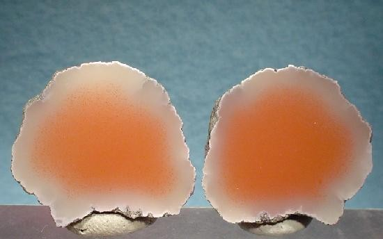 Datolite Locality: Delaware Mine (Delaware Conglomerate Mine), Delaware, Keweenaw County, Michigan, USA (Locality at ) Size: 2.8 x 2.7 x 1.1 cm (largest). A showy and excellent matched pair of a sawed and polished datolite nodule from the Delaware Mine of Michigan’s Copper Country. The slices have high lustre, a nice porcelaneous texture and the gray rind is very attractive with the copper-included orange-red interior.